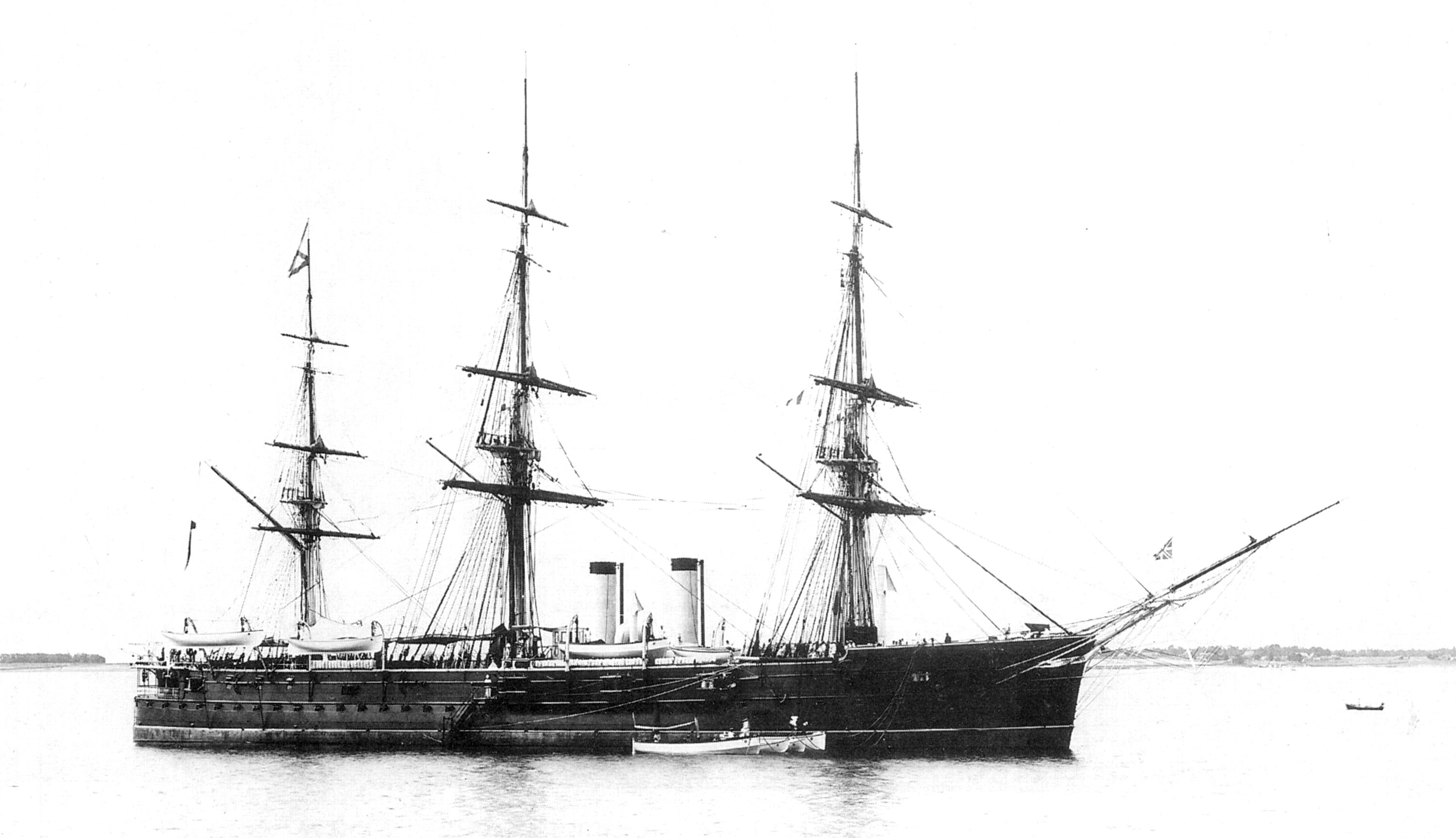 Imperial Russian semi-armoured frigate General-Admiral.